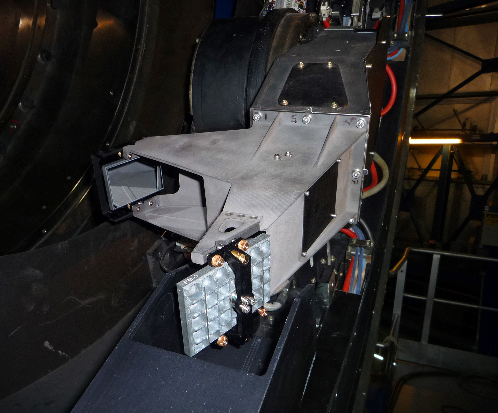 ESO has utilised the innovative technology of 3D printing to manufacture moulds for the casting of two new components required for the MUSE instrument on ESO's Very Large Telescope (VLT) in Chile. This technique offers great promise in the manufacture of complex custom items, which are often needed in astronomical instrumentation, delivering the components more quickly and cheaply and with greater flexibility. The component, the structural body of a new sensor arm, appears in the centre of the picture and is the mounting point for three mirrors.